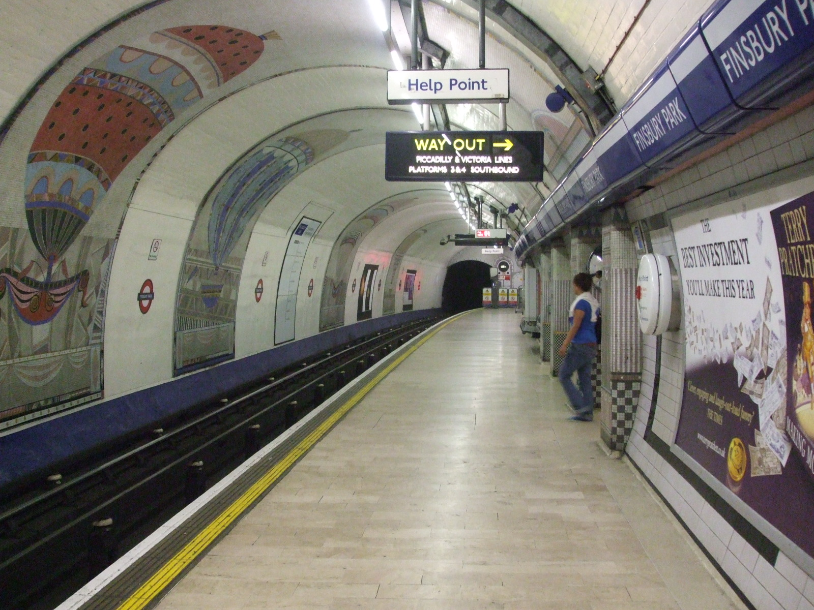 Finsbury Park tube station Piccadilly line northbound platform, looking north